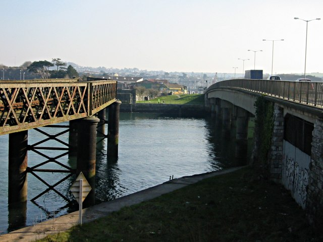 Two Bridges Cross The Laira The Laira is the name for the estuarine stretch of the River Plym above The Cattewater. Here it's at its narrowest. On the left is an old decaying railway bridge and on the right, the four lane road bridge taking traffic between Plymouth and the large suburb of Plymstock.